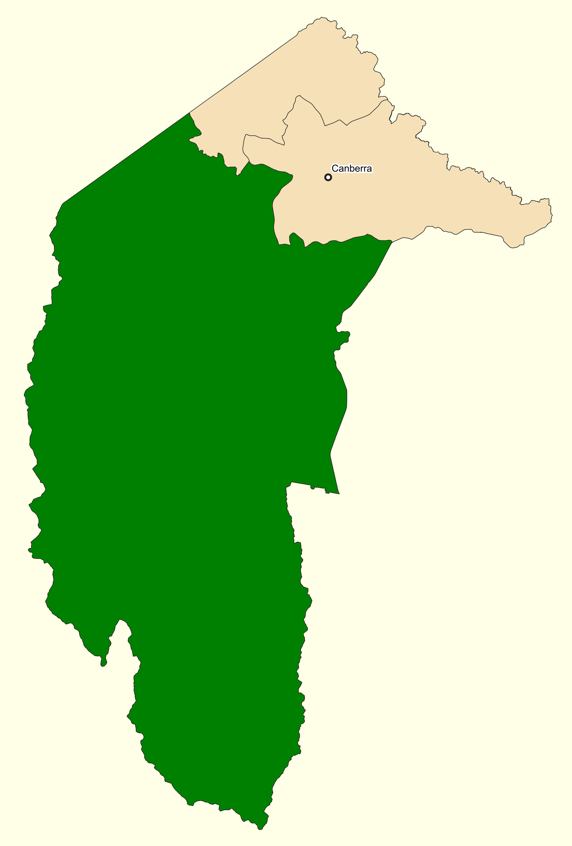 Location of the Australian federal electoral division of Bean (dark green) in the Australian Capital Territory as of the 2019 Australian federal election. Incorporates or developed using Administrative Boundaries ©PSMA Australia Limited licensed by the Commonwealth of Australia under Creative Commons Attribution 4.0 International licence (CC BY 4.0).